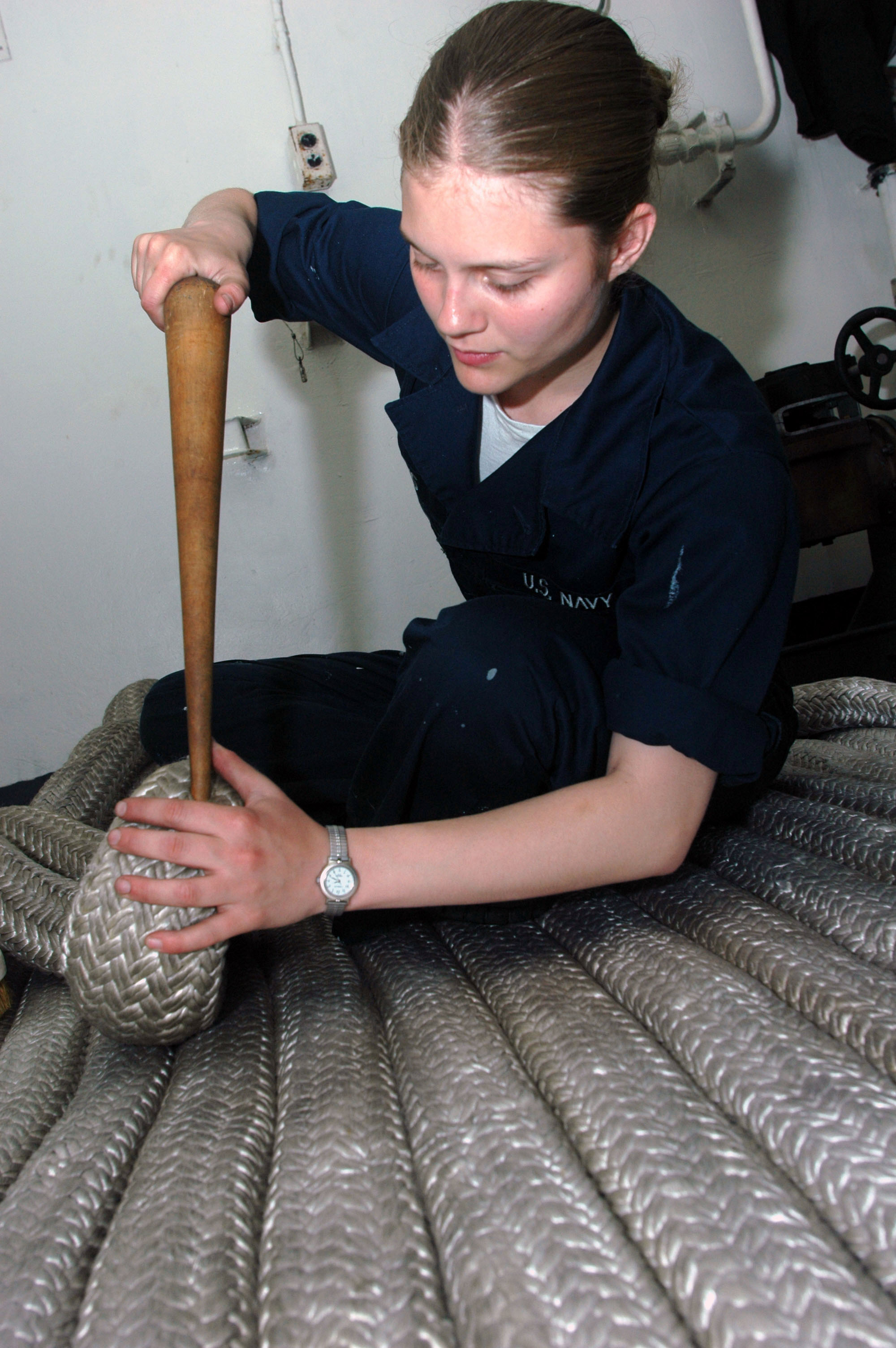 Pacific Ocean (June 14, 2006) - Seaman Jamie Lewis uses a fid to repair a snag on a mooring line aboard Nimitz-class aircraft carrier USS John C. Stennis (CVN 74). Stennis and embarked Carrier Air Wing Nine (CVW-9) are currently underway conducting Tailored Ship's Training Availability (TSTA) off the coast of Southern California. U.S. Navy photo by Photographer's Mate 3rd Class Paul J. Perkins (RELEASED)